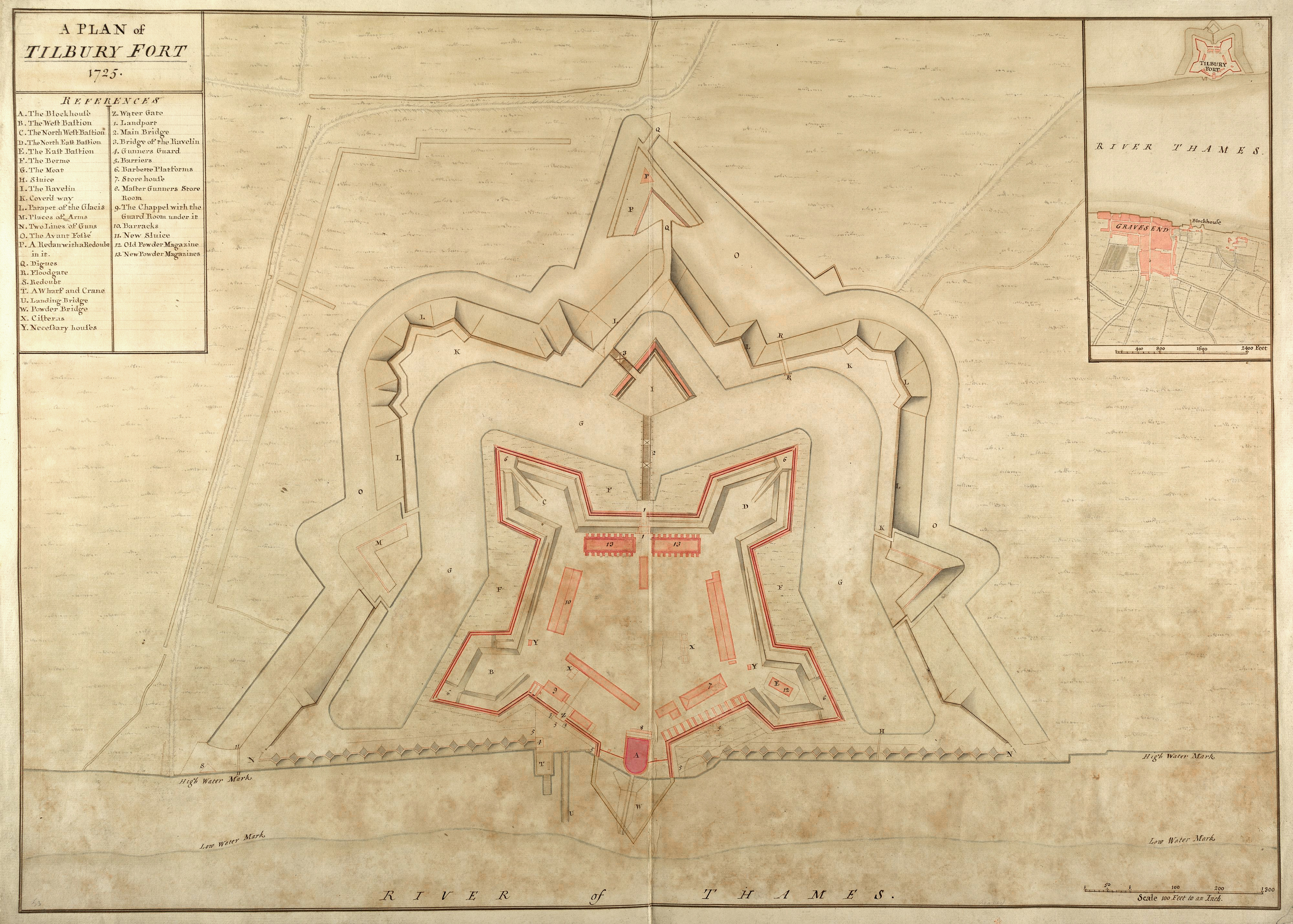 Plan of Tilbury Fort, 1725. The original D-shaped Henrician blockhouse highlighted in red.